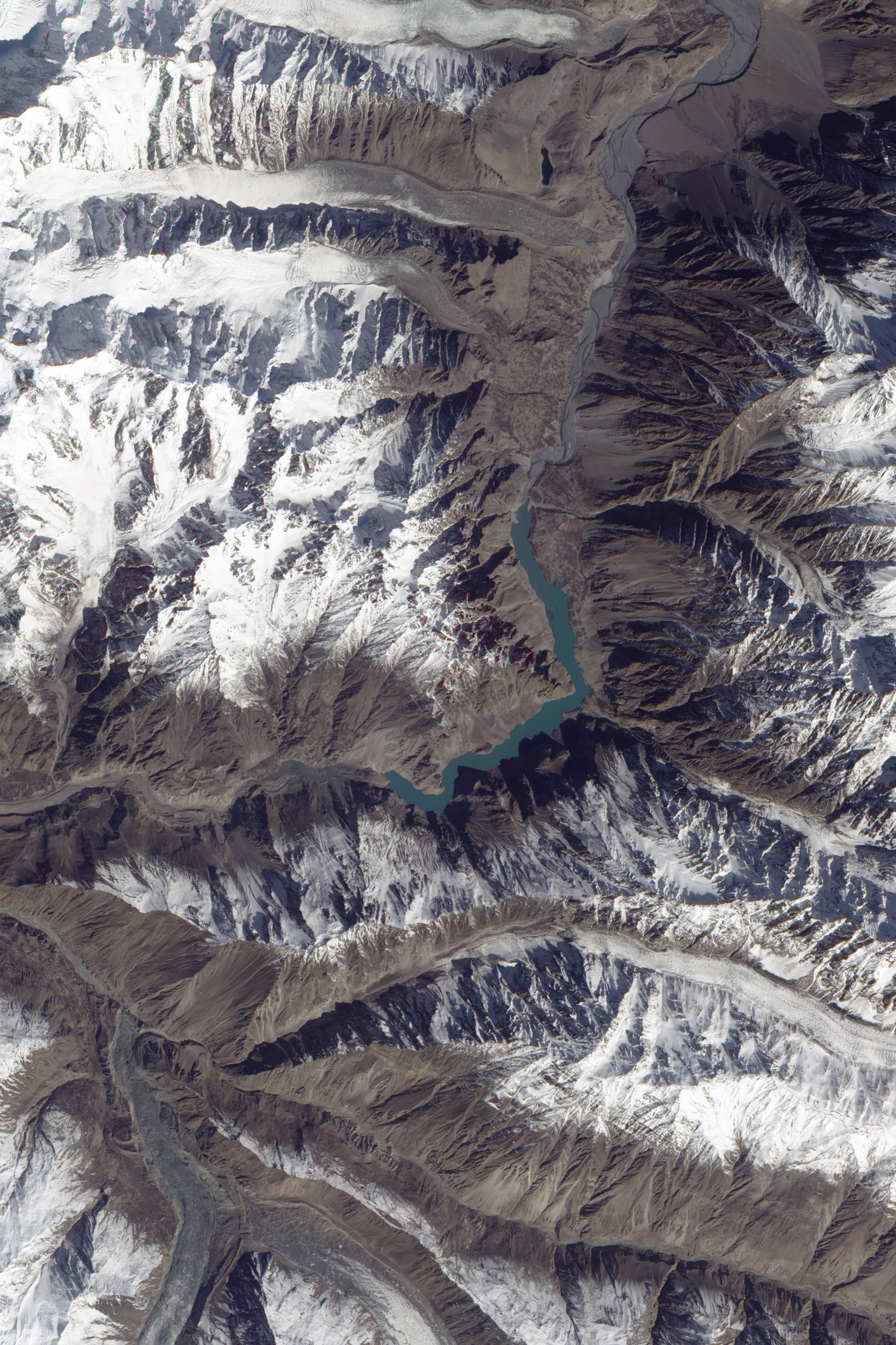 Dark rock covers the river in the upper left corner of the image (Satelite Imagery), and the turquoise V-shaped lake stretches out behind the slide. Near the temporary lake, the Karakoram Highway is a faint meandering line of pale brown. A bridge across the Hunza River has been submerged by the rising waters.